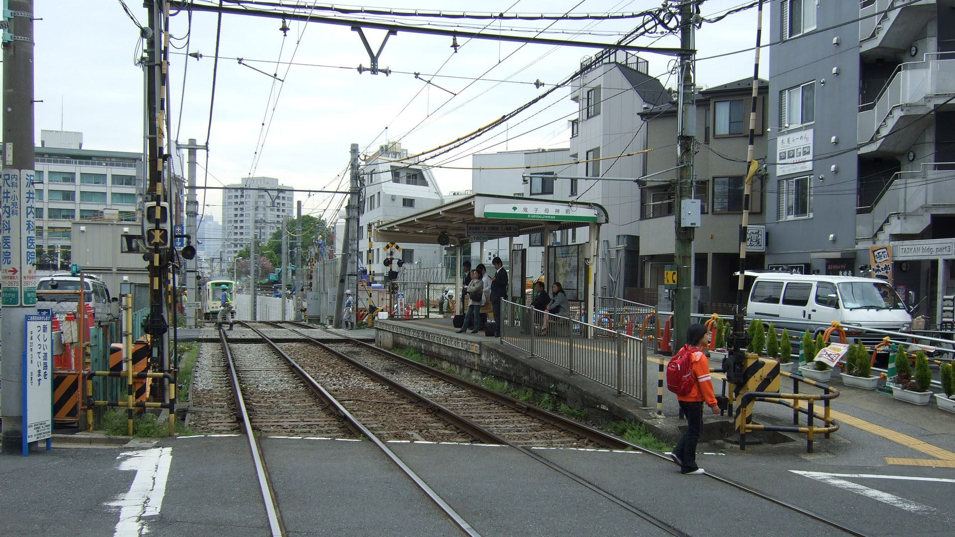 Kishibojinmae station (TOKYO TRAM)